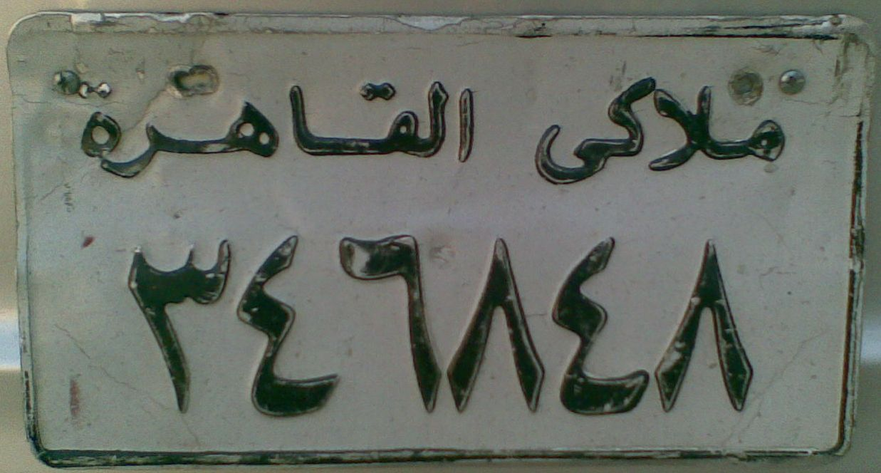 1990s Egyptian vehicle registration number